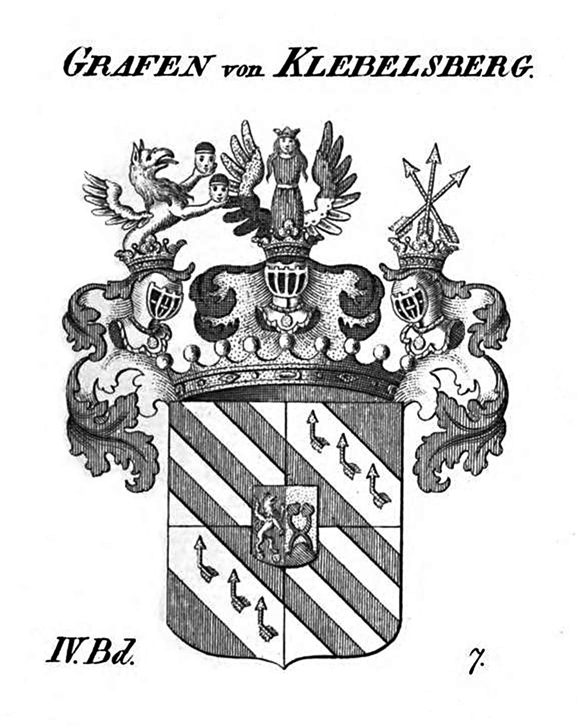 Coat of arms of Klebelsberg (Counts)